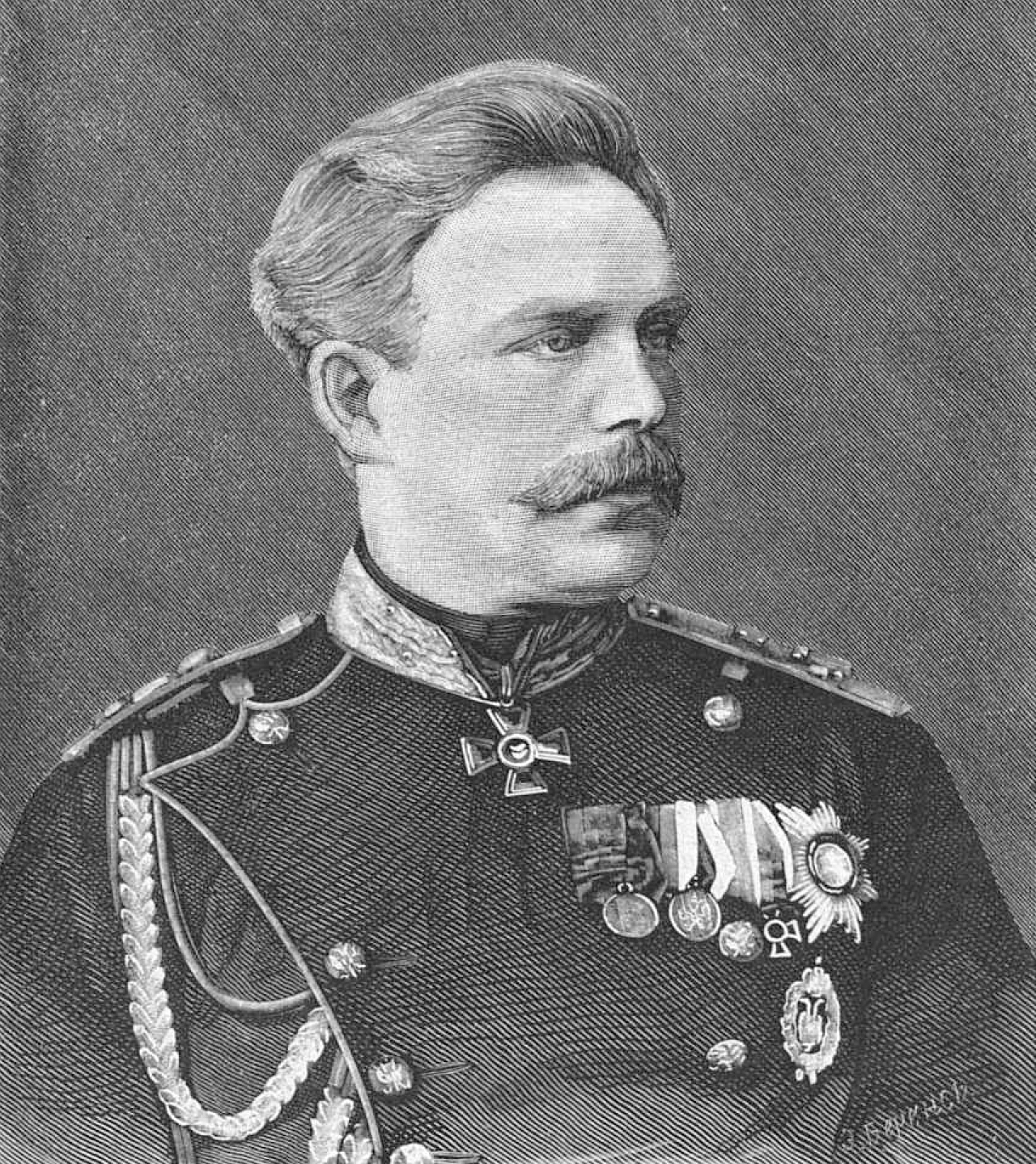 Chertkov, Grigory Ivanovich